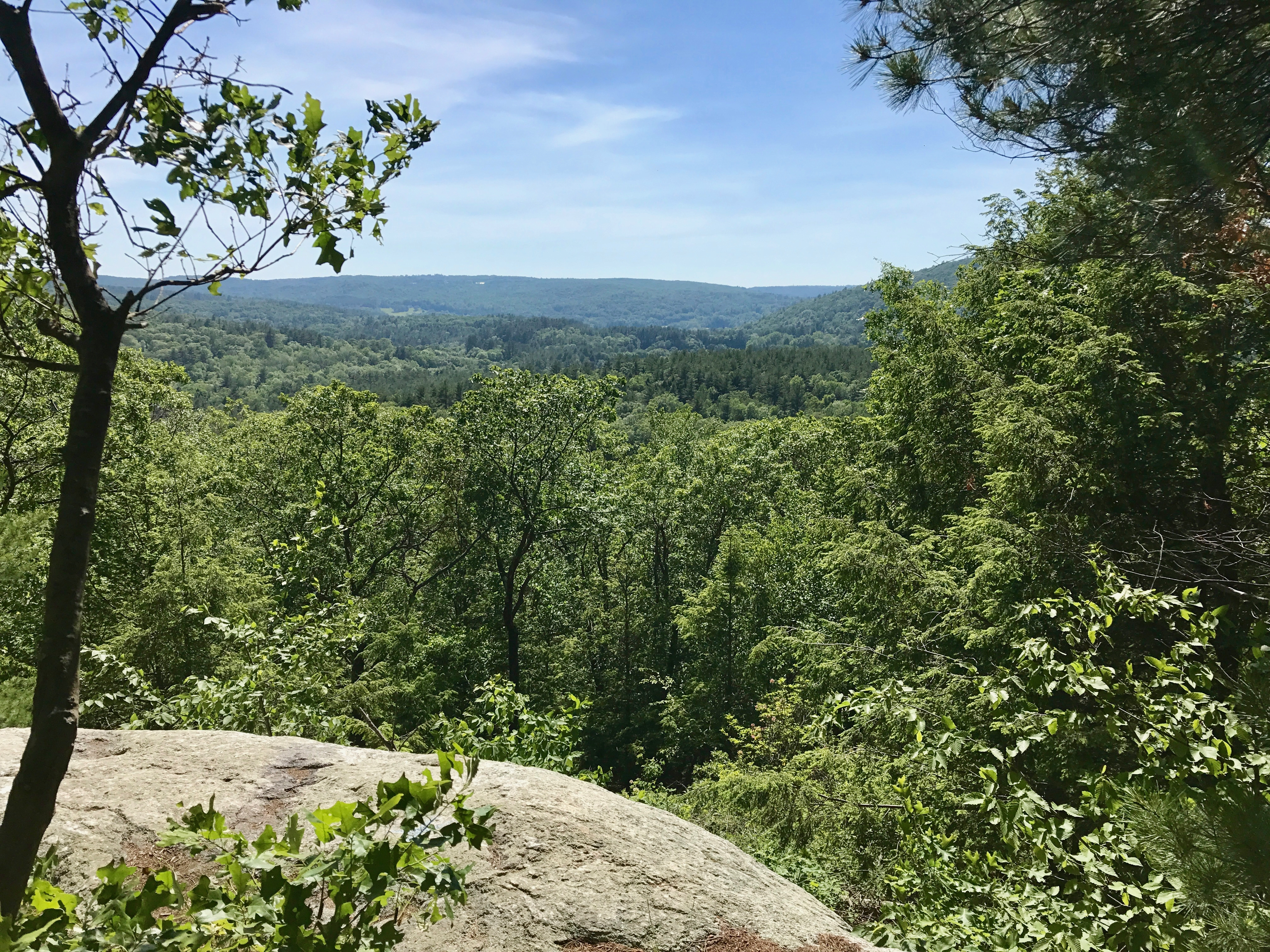 Nepaug State Forest's Valley Outlook Trail scenic overlook view of the Nepaug valley and Yellow Mountain.